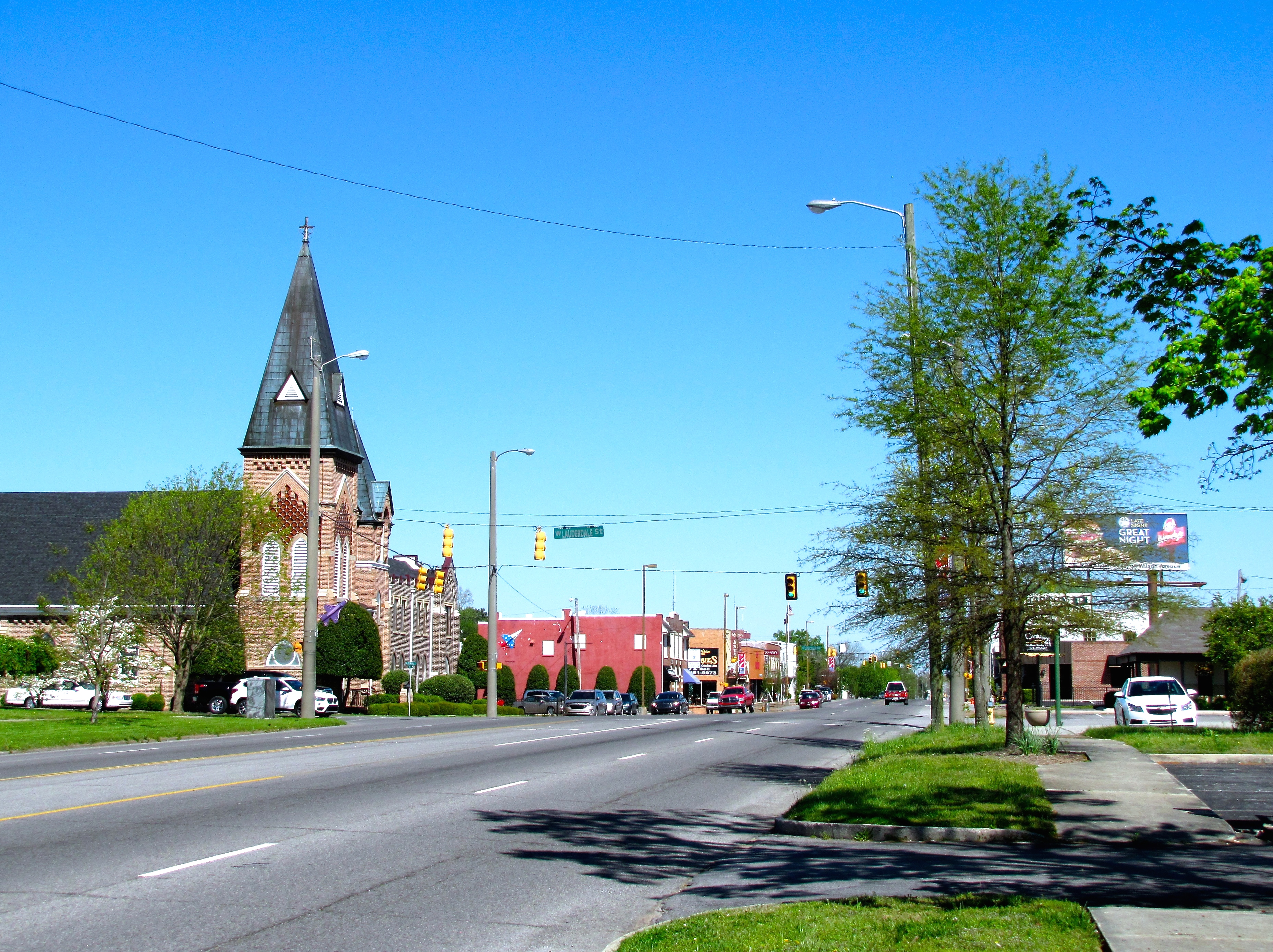 Jackson Street (U.S. 41A) in Tullahoma, Tennessee, United States. First United Methodist Church on the left.